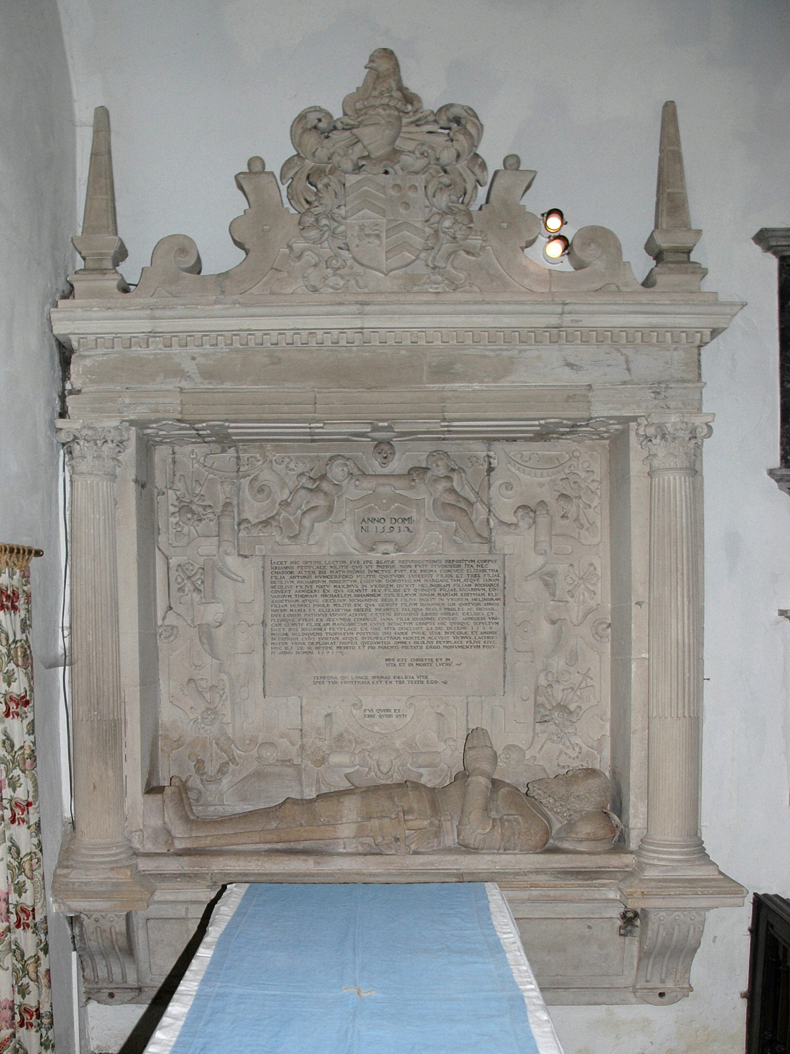 Inside the chancel of St Laurence's parish church, Appleton, Oxfordshire: monument erected in 1593 to Sir John Fettiplace (d.1580) of Besil's Leigh (modern: Besselsleigh), Berkshire (now Oxfordshire). Showing the arms of Fettiplace: Gules, two chevrons argent[1] quartering Three bezants (possibly canting arms of Besil, an heiress of the family) and Gules, a lion statant guardant argent crowned or (Lisle of Kingston Lisle, Sparsholt, Berkshire)